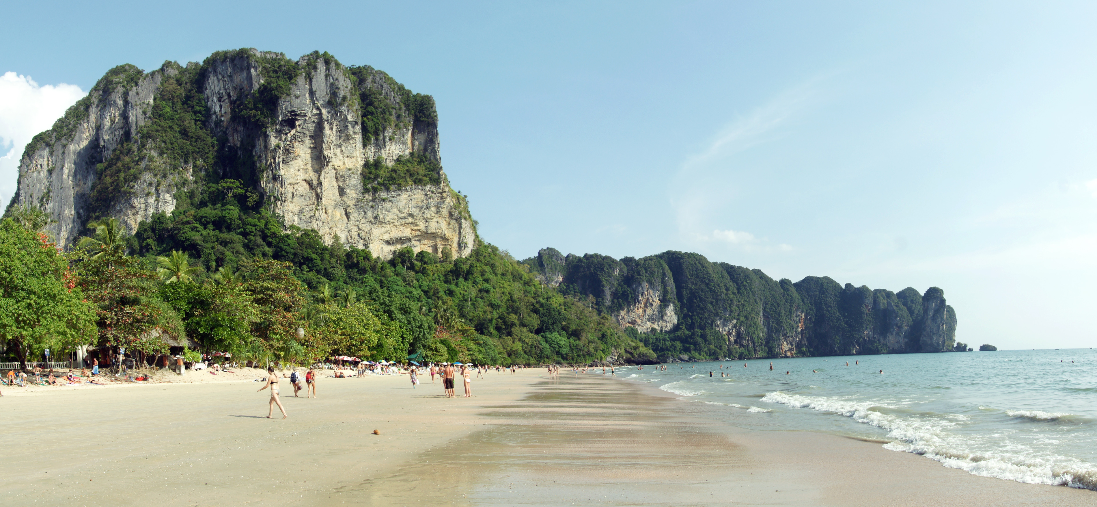 Panorama of Ao Nang beach in Ao Nang, Krabi, Thailand.